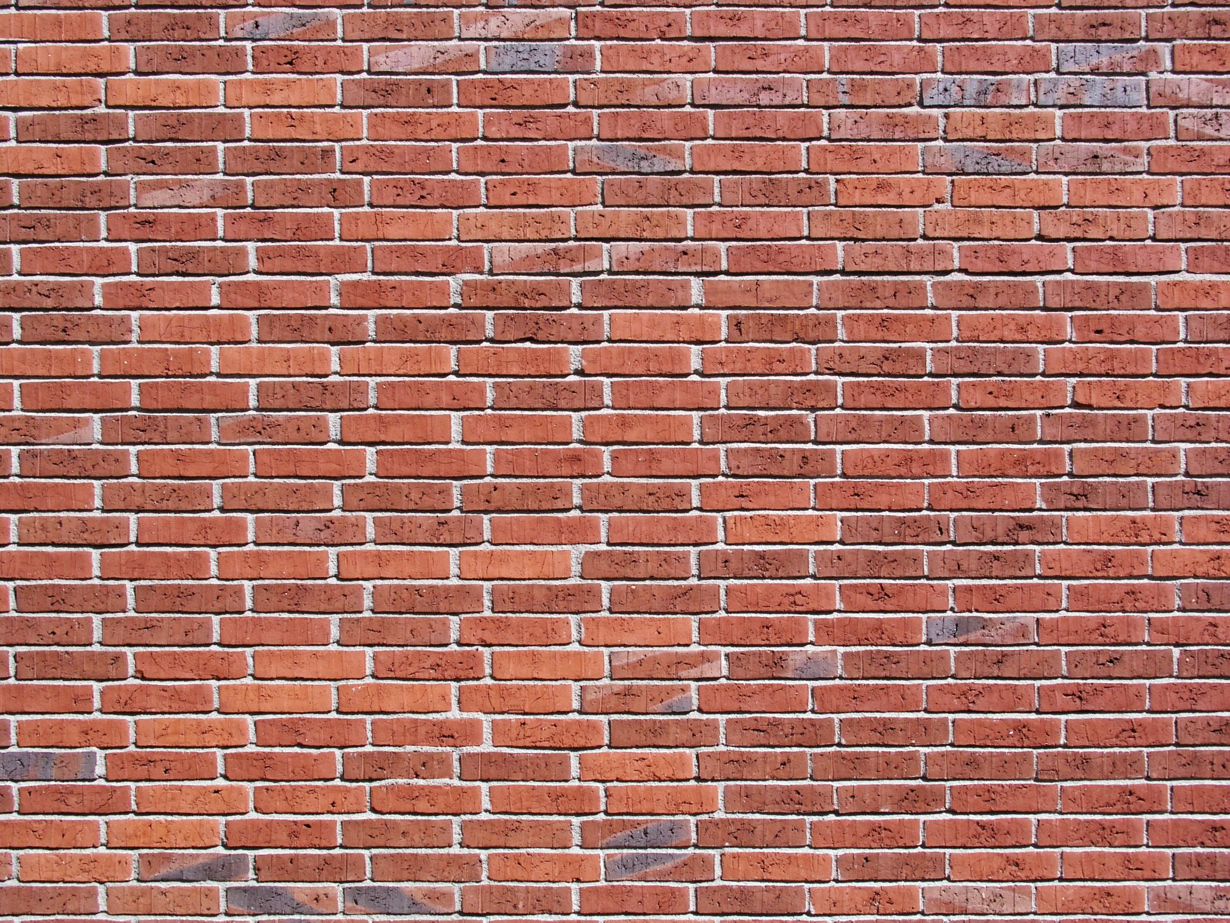 Solna, Sweden. Brick wall. Stretcher bond, variation with an alternating shifting of the stretcher course by a quarter brick.